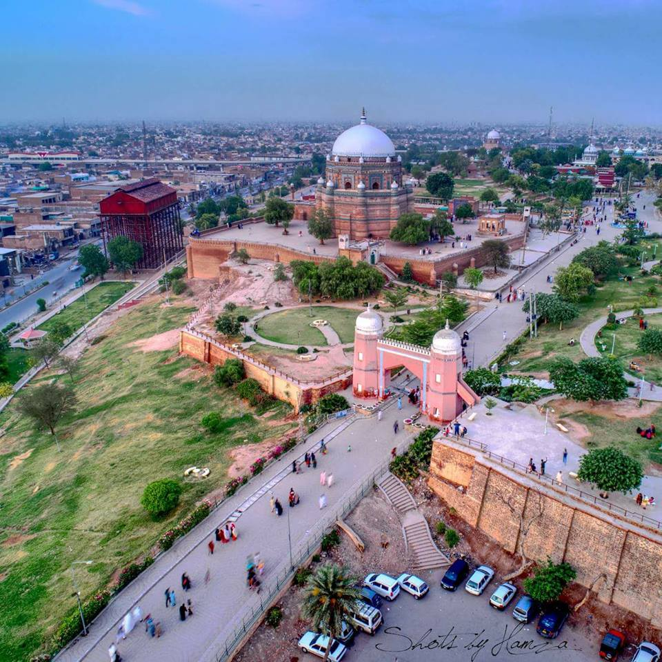 Fort Qasim and Tomb of Shah Rukn-e-Alam,Multan Pakistan